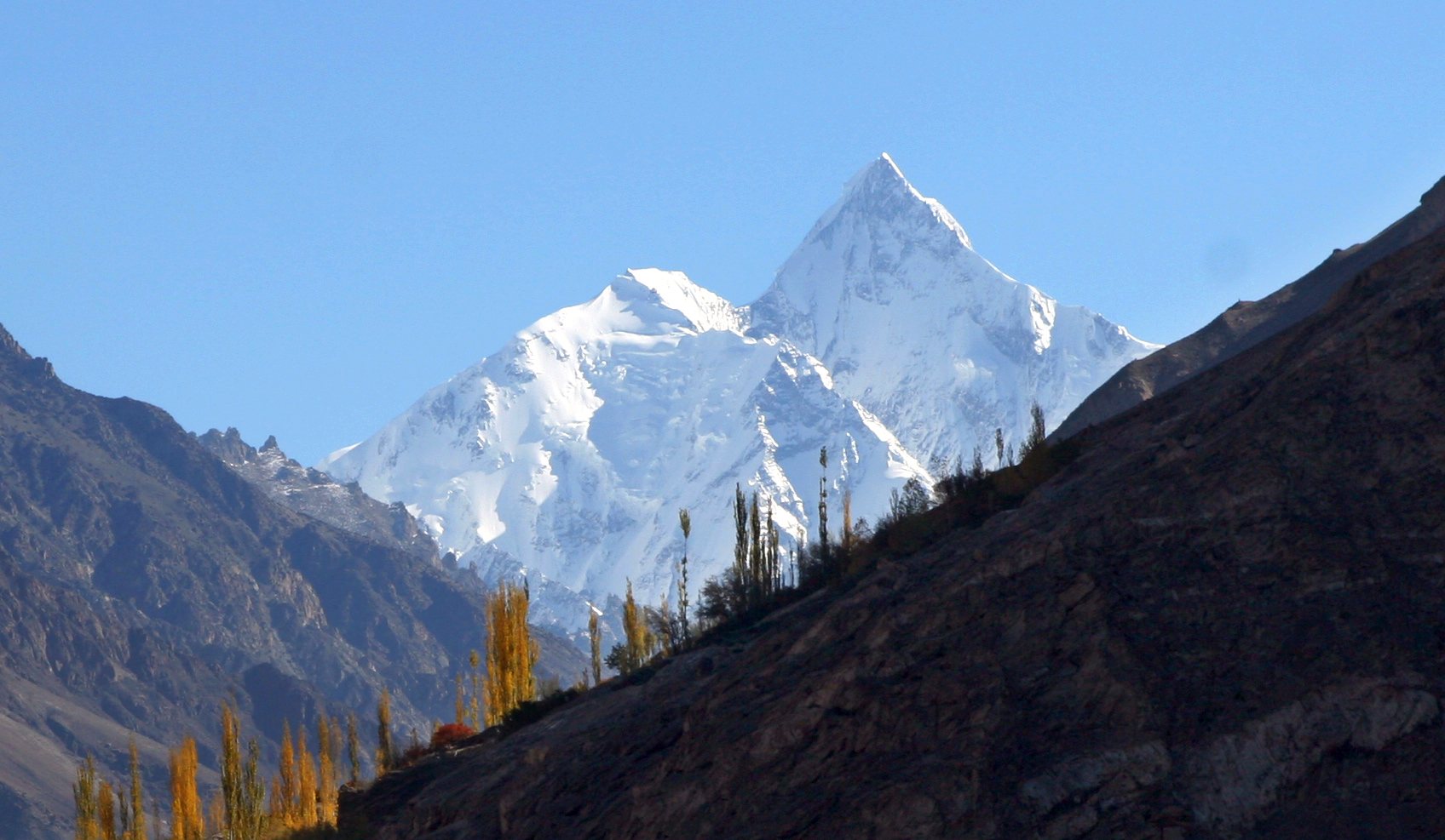 Lupghar Sar seen from Hunza Valley. Cropped version of File:Autumn color in Hunza Valley.jpg. for use in tables etc. as thumbnail.